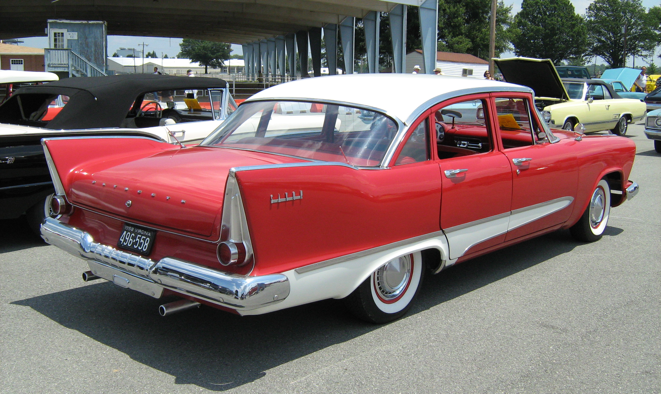 1958 Plymouth Savoy 4-door sedan. The automobile is finished in red with a white top.